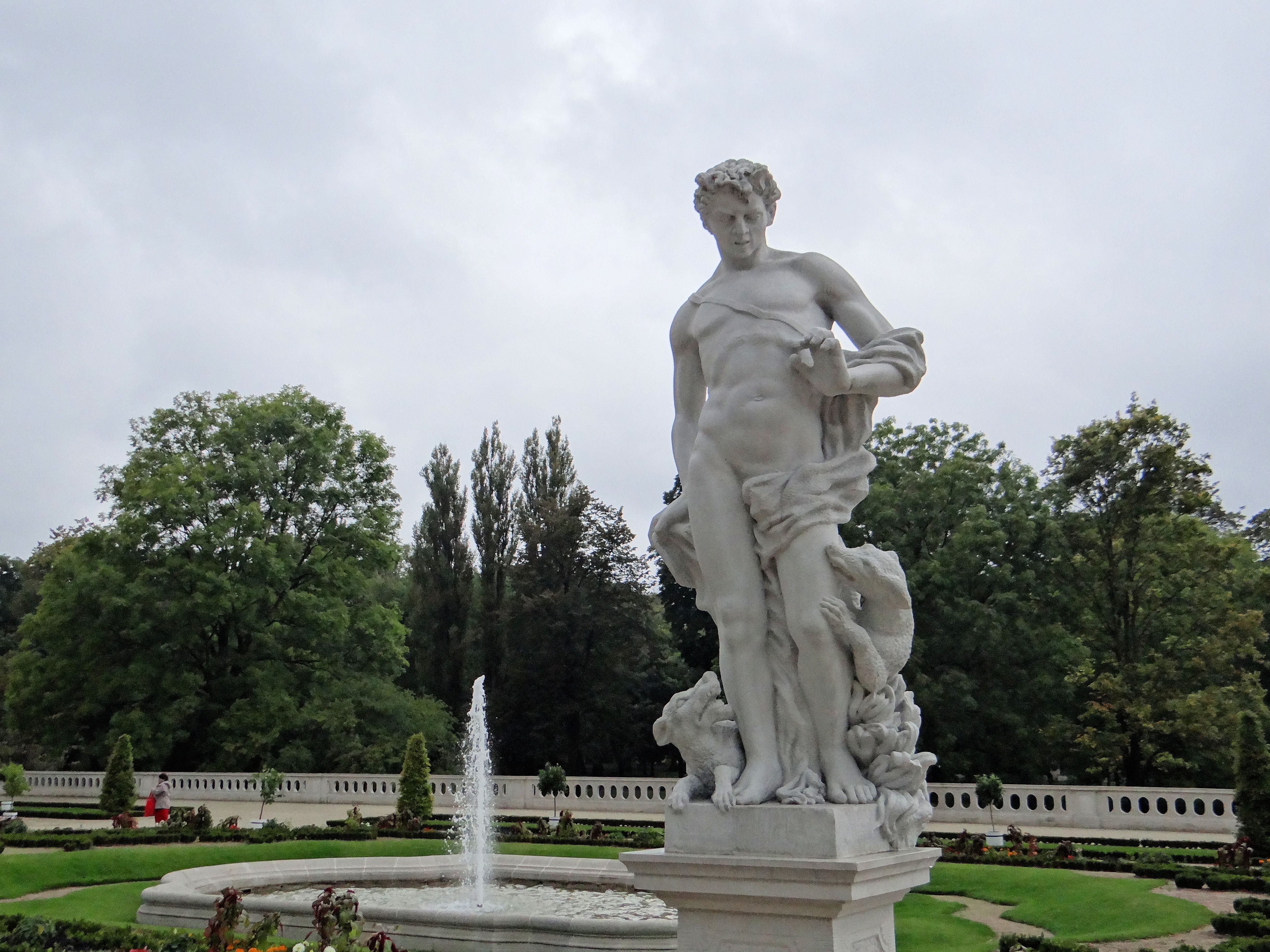 Sculpture in the Garden Palace Branicki in Białystok - Akteon